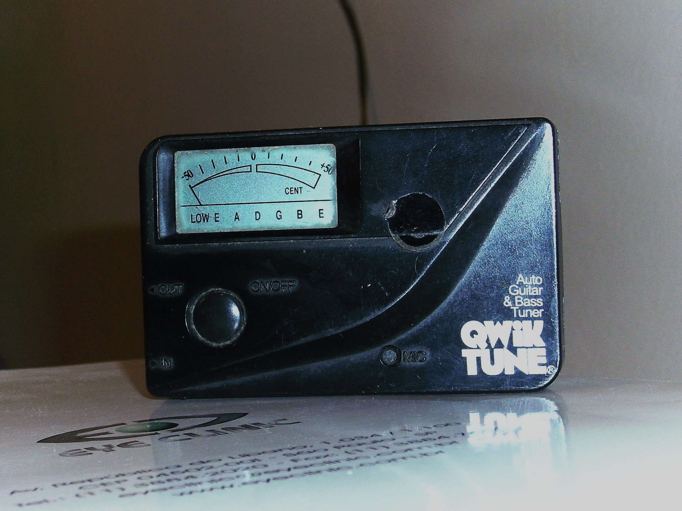 Eletronic tuner